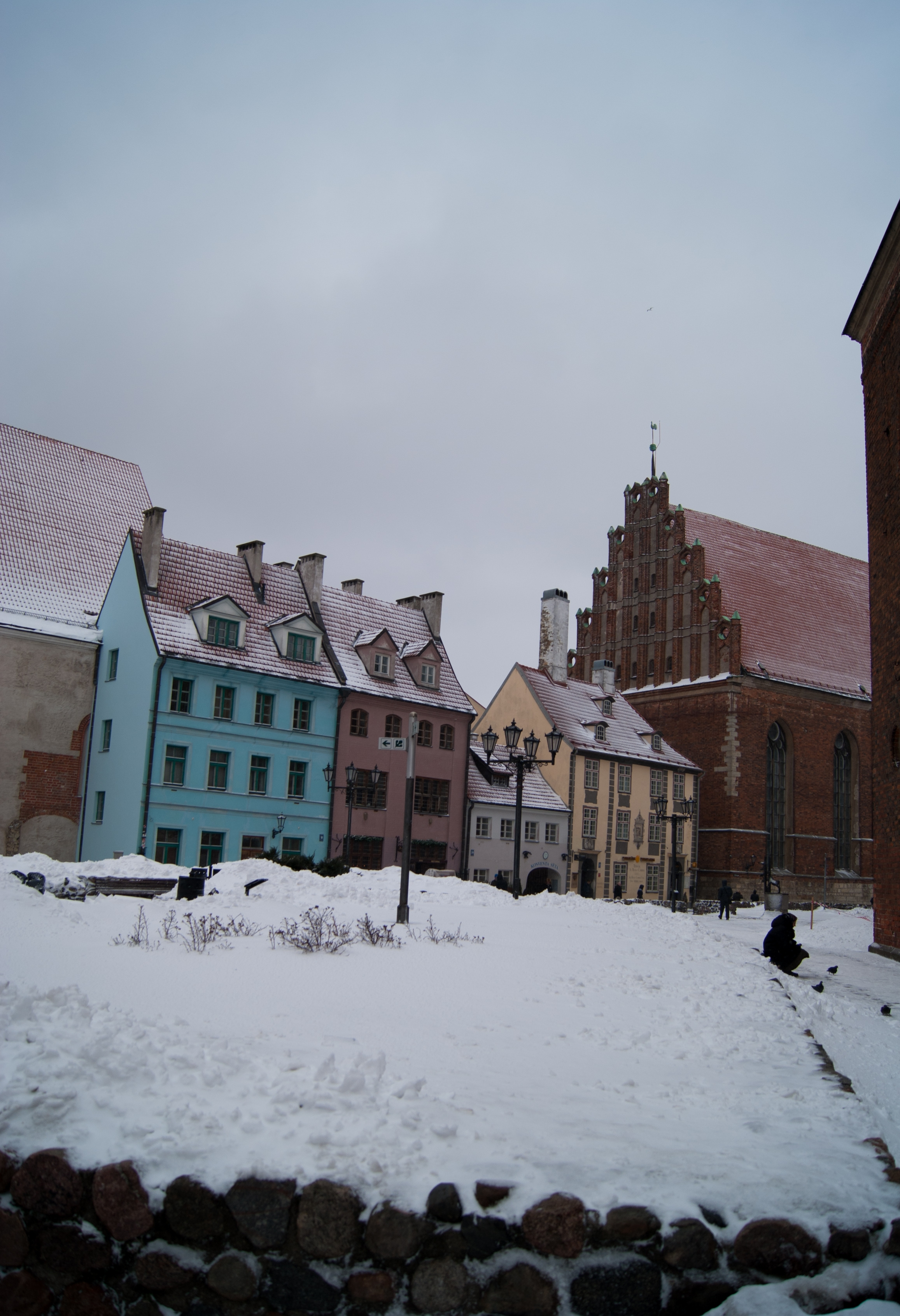 More informations about the city on !